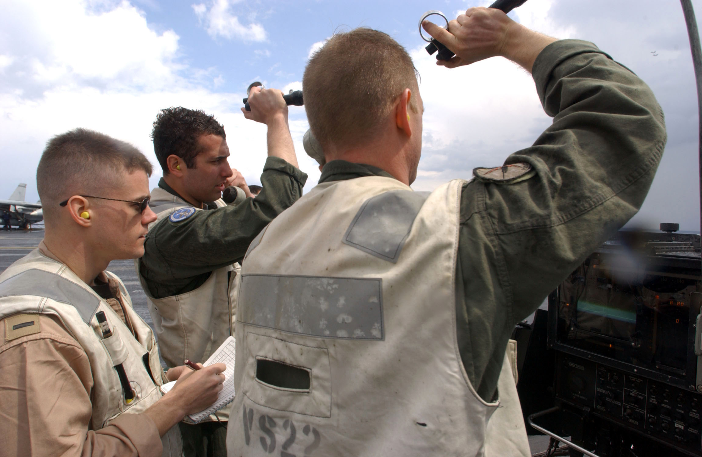 The Mediterranean (March 22, 2003) -- Landing Signal Officers (LSOs) talk to the pilots during their final approach on the flight deck aboard USS Harry S. Truman (CVN 75). Truman is deployed in support of Operation Iraqi Freedom, the multi-national coalition effort to liberate the Iraqi people, eliminate Iraq's weapons of mass destruction, and end the regime of Saddam Hussein. U.S. Navy photo by Photographer's Mate 3rd Class Christopher B. Stoltz. (RELEASED)